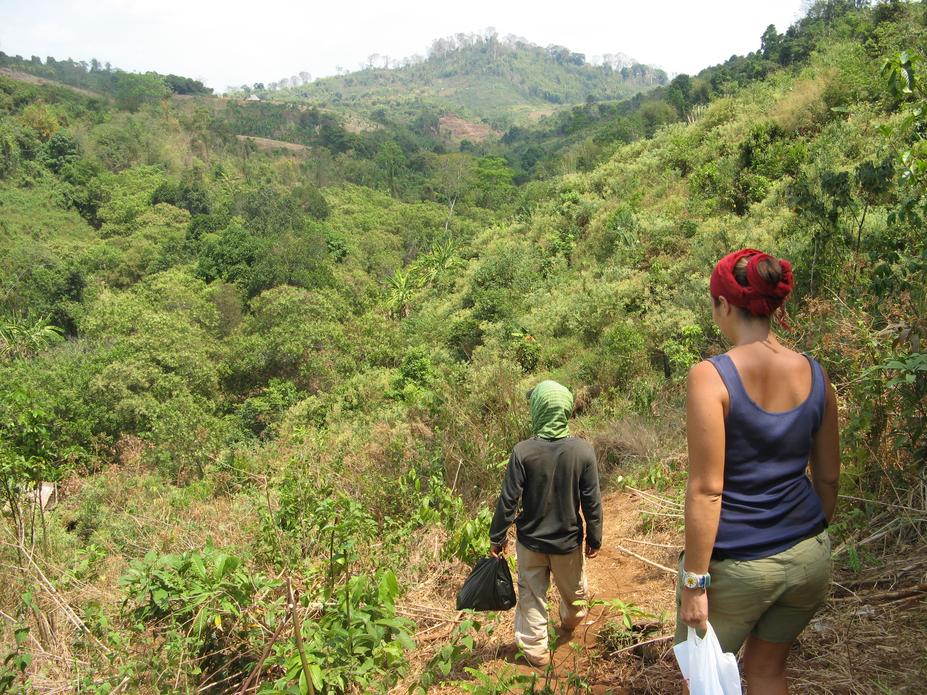 Trail between villages in Ratanakiri, Cambodia